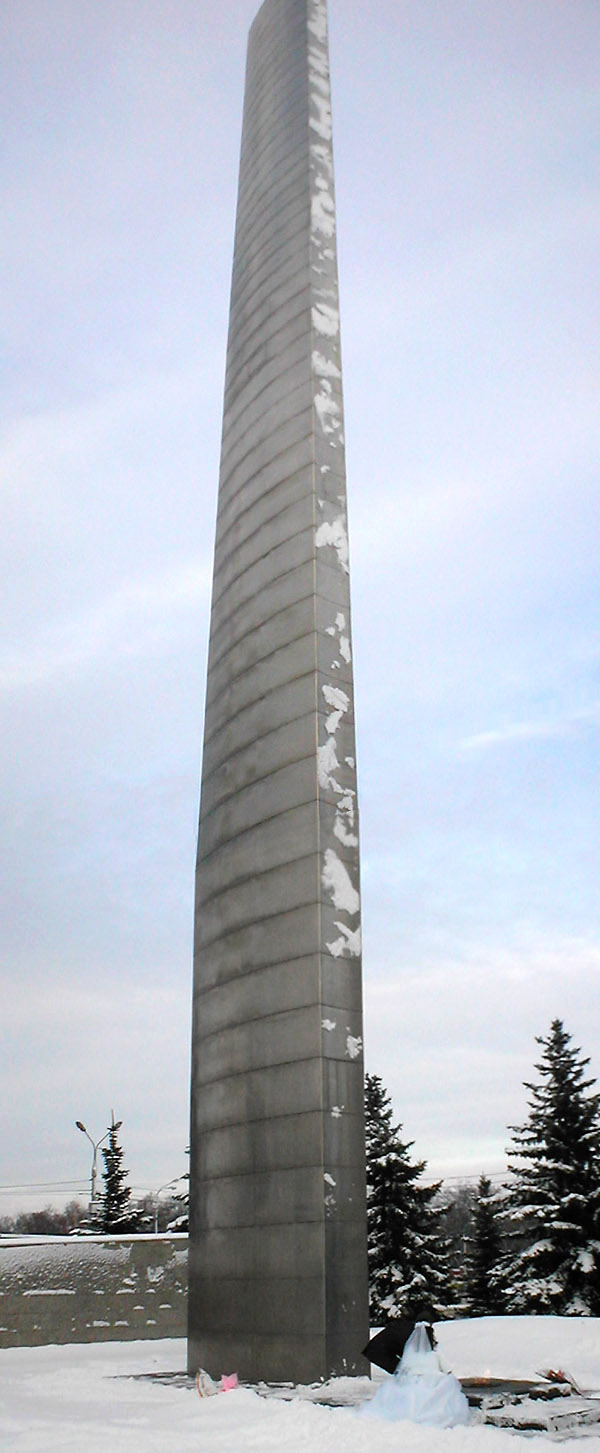 stele and eternal flame in WWII and Soviet power heroes memorial complex on Gorky park square in Kazan